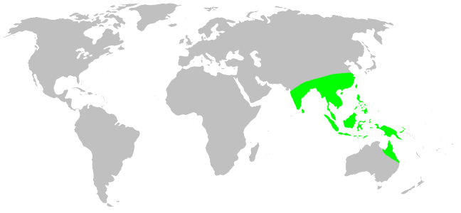 Psechridae habitat distribution, drawn after Platnick: World Spider Catalog 7.0. This is not at all a precise rendering of the distribution! If you have better information, please replace this map, or send me the info, and i will redraw it.